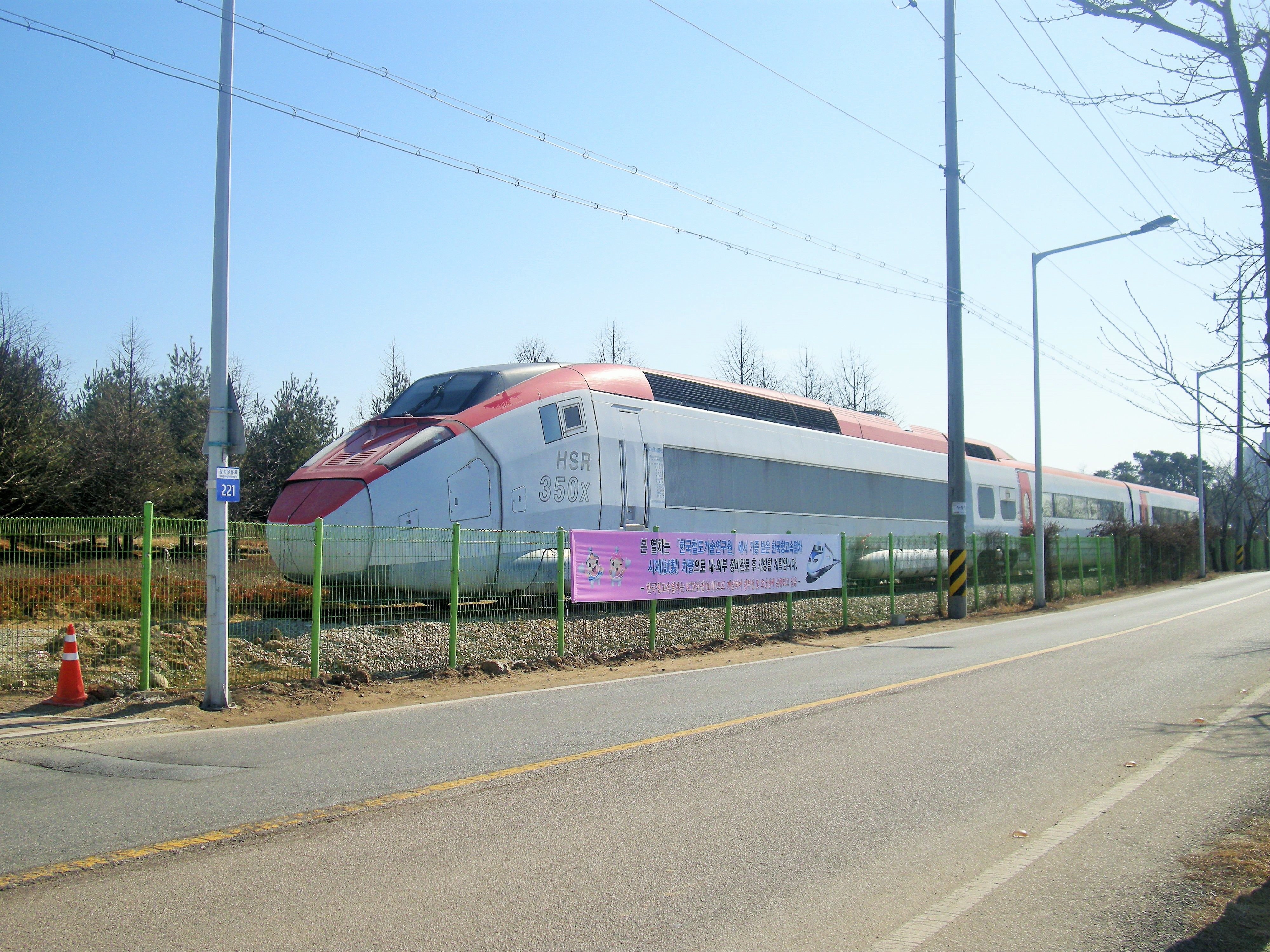 HSR-350x exhibited in Woram-dong, Uiwang-si, Gyeonggi